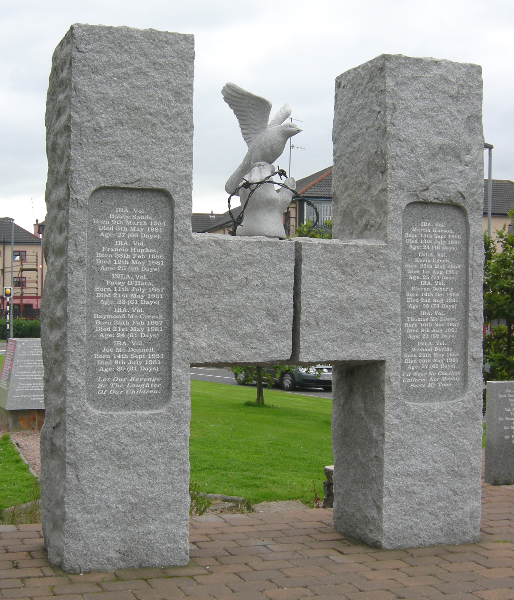 H-Block Monument in the Free Derry area of the Bogside, Derry; in memory of the hunger strikers in the H-Block of Long Kesh prison in 1981.